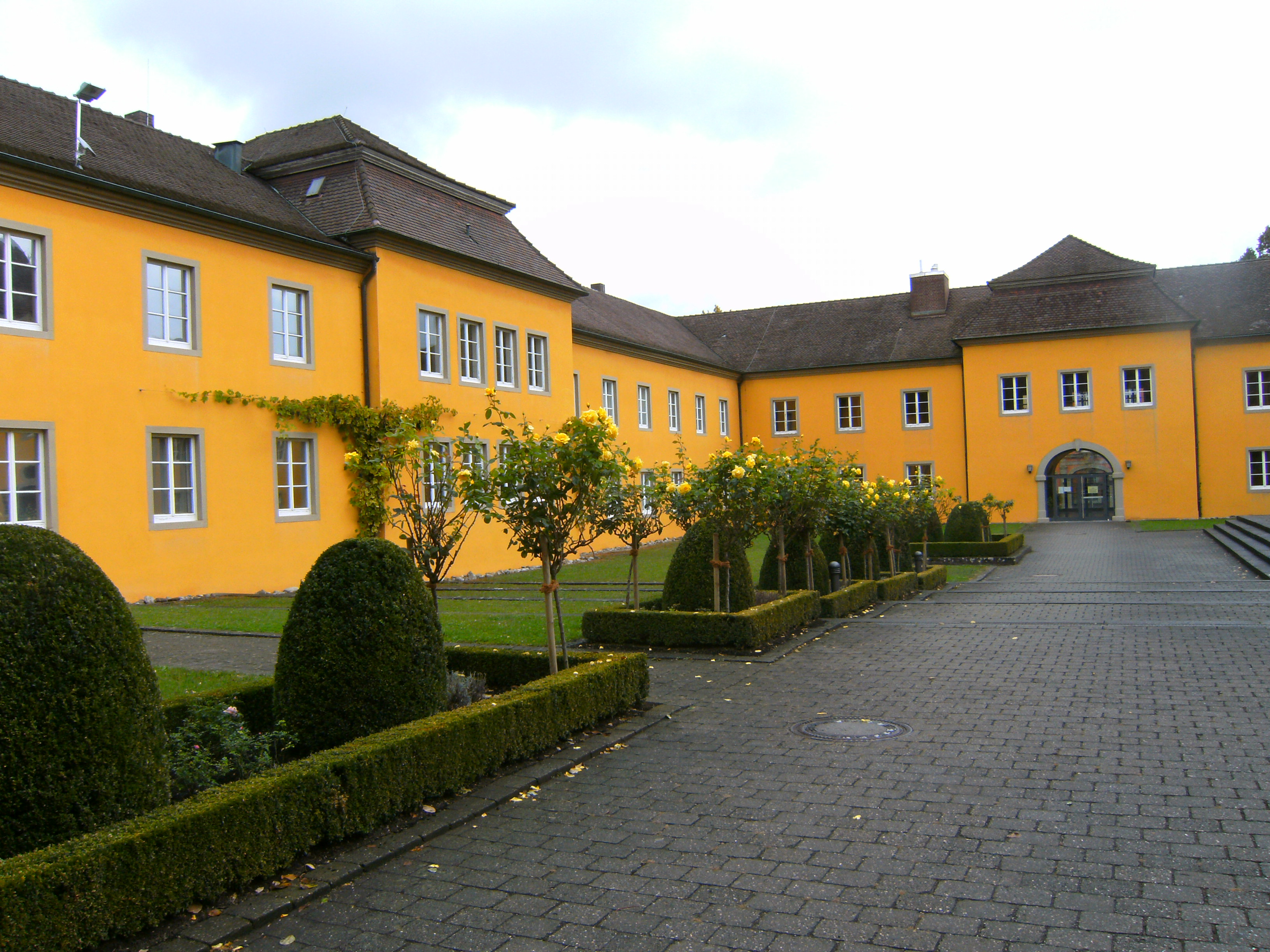 Former riding stable in the building of the Staatweingut Meersburg (winery). northeastern wings of the courtyard.